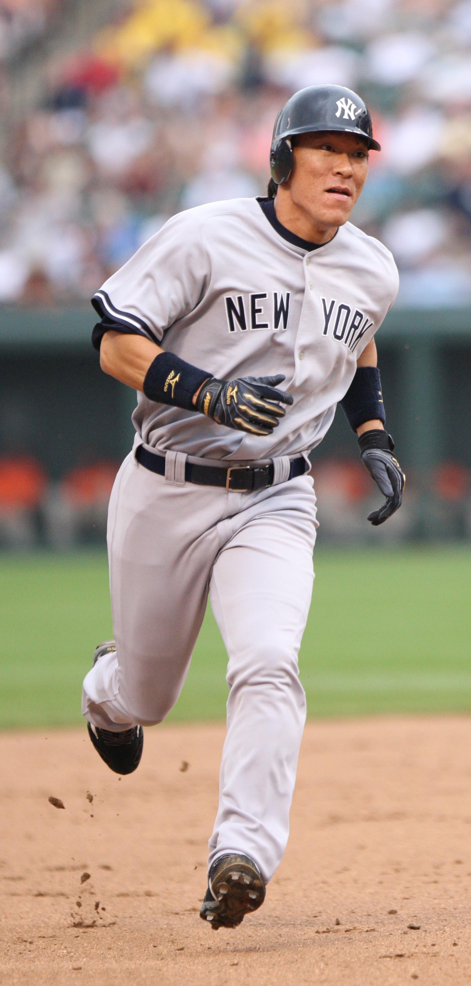 Hideki Matsui Reprint from Flickr